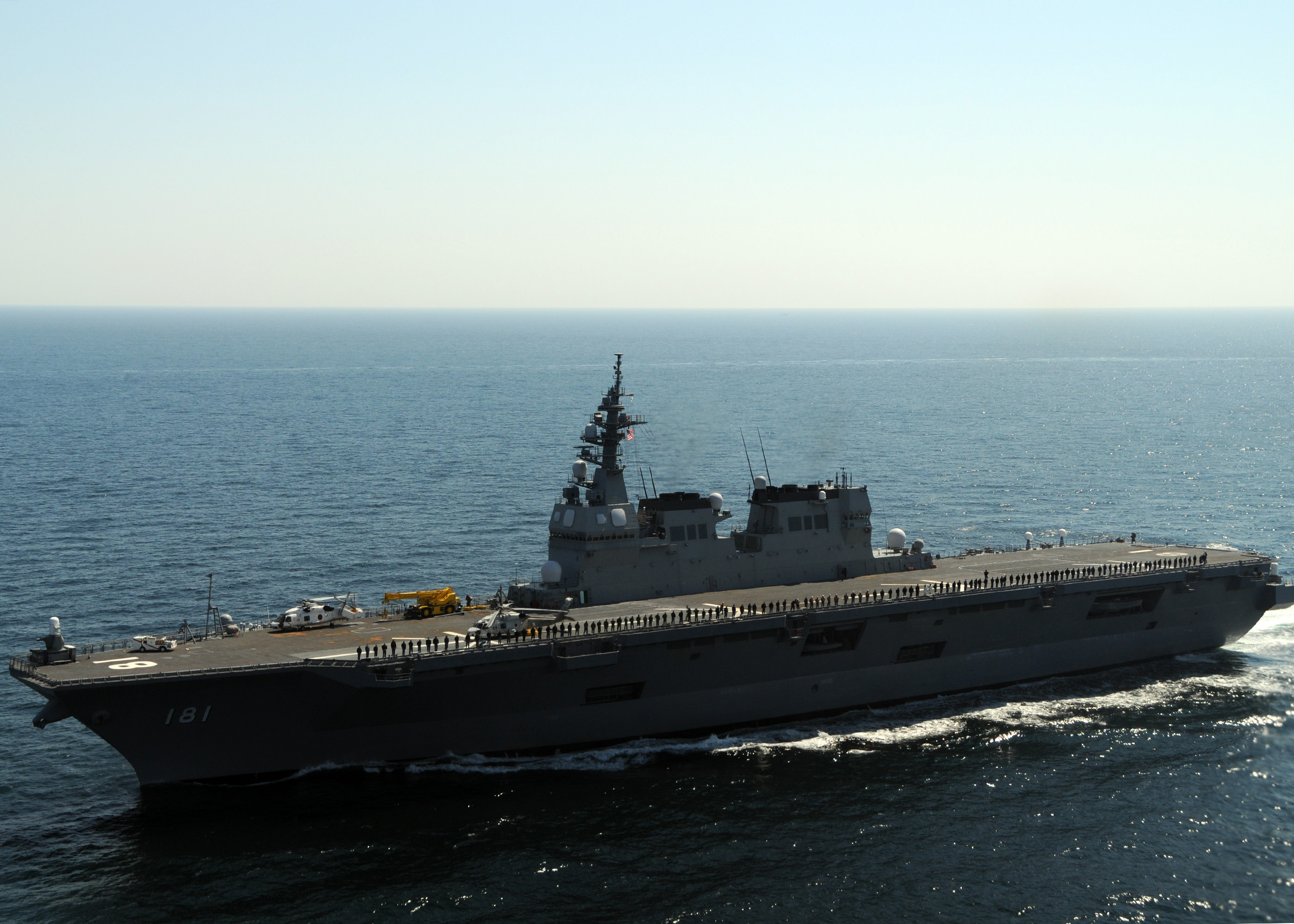 The Japan Maritime Self-Defense Force helicopter destroyer JS Hyuga (DDH 181) maneuvers into formation for a farewell pass with the amphibious assault ship USS Essex (LHD 2) in the Pacific Ocean April 6, 2011. Essex was operating off the coast of Kesennuma, Japan, in support of Operation Tomodachi earthquake and tsunami humanitarian relief efforts.